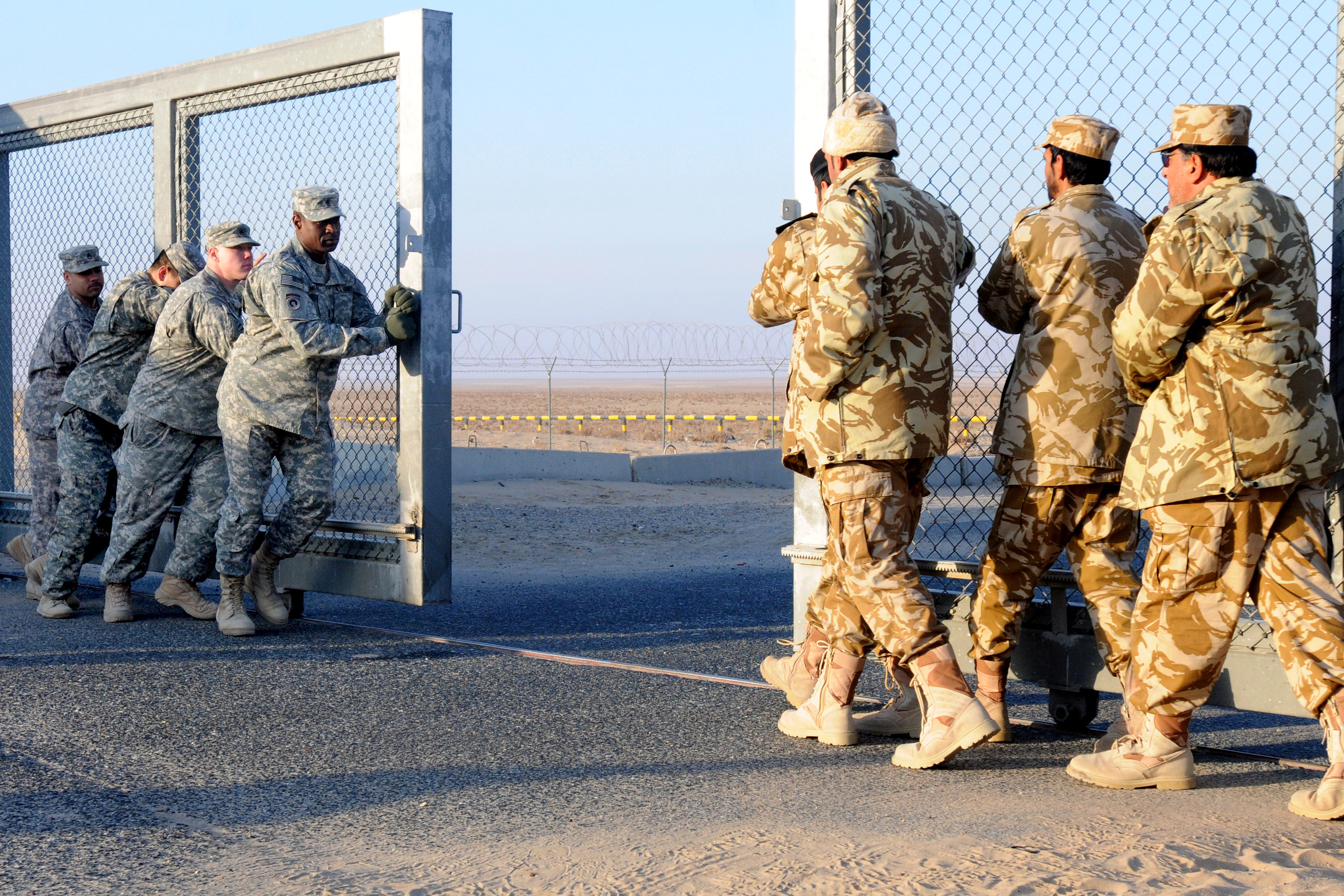 U.S. and Kuwaiti troops unite to close the gate between Kuwait and Iraq after the last military convoys passed through, Dec. 18, 2011, signaling the end of Operation New Dawn. U.S. Army photo by Cpl. Jordan Johnson.